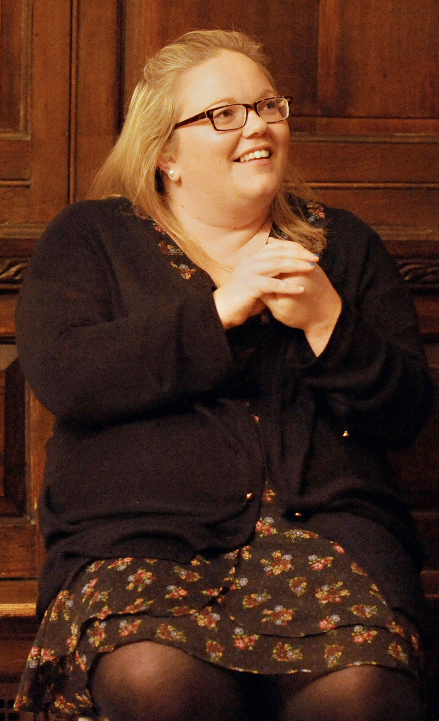 Ciara Conway in 2014